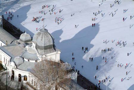 This picture is © copyright Civertan Grafikai Stúdió (Civertan Bt.), 1997-2006.; has been verified that Commons user Civertan is controlled by Civertan Grafikai Stúdió and that it is allowed to relicense content copyrighted to this organization. This work is free and may be used by anyone for any purpose. If you wish to use this content, you do not need to request permission as long as you follow any licensing requirements mentioned on this page.